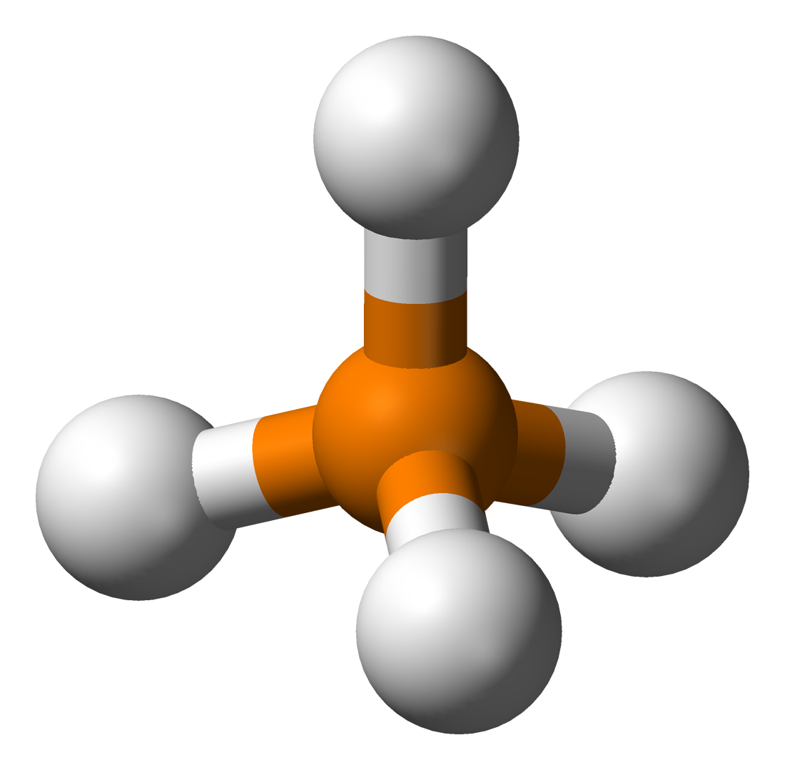 Ball-and-stick model of the phosphonium ion, PH4+